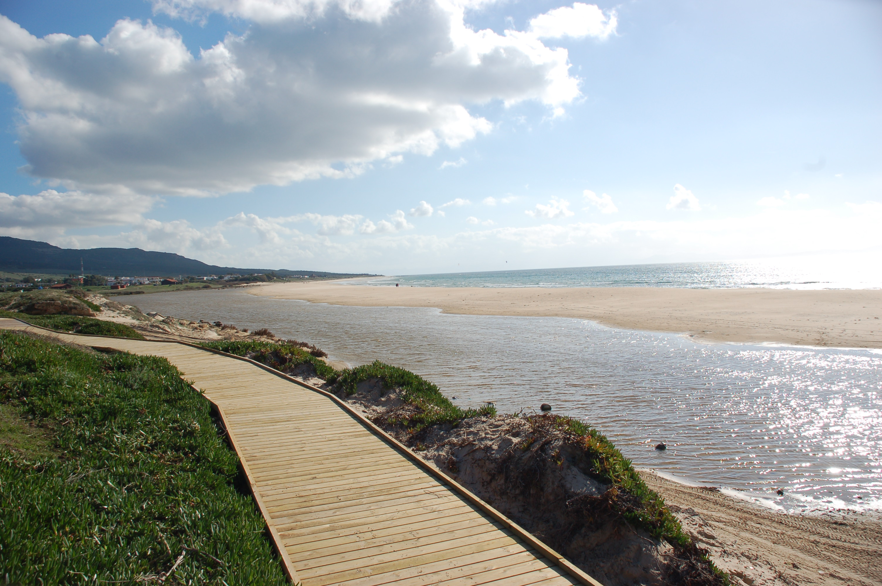 The beach in Bolonia, Cádiz, Spain